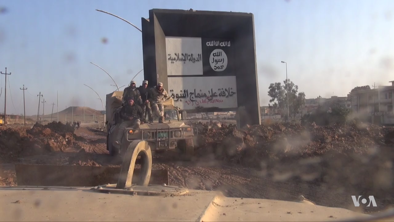 An Iraqi military HMMWV drives past an Islamic State sign in eastern Mosul after they captured it from IS.